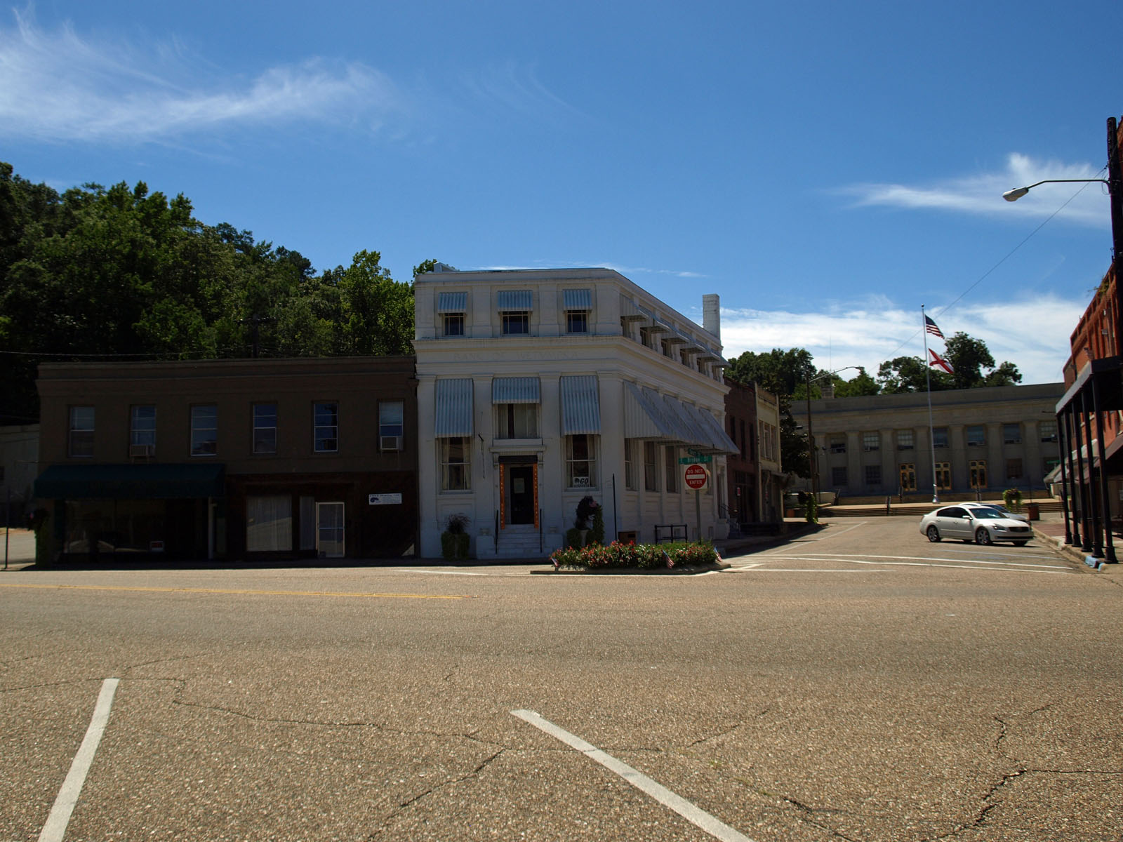 East Bridge and Court Streets in Wetumpka, Alabama, looking south. The Elmore County Courthouse is visible in the background.